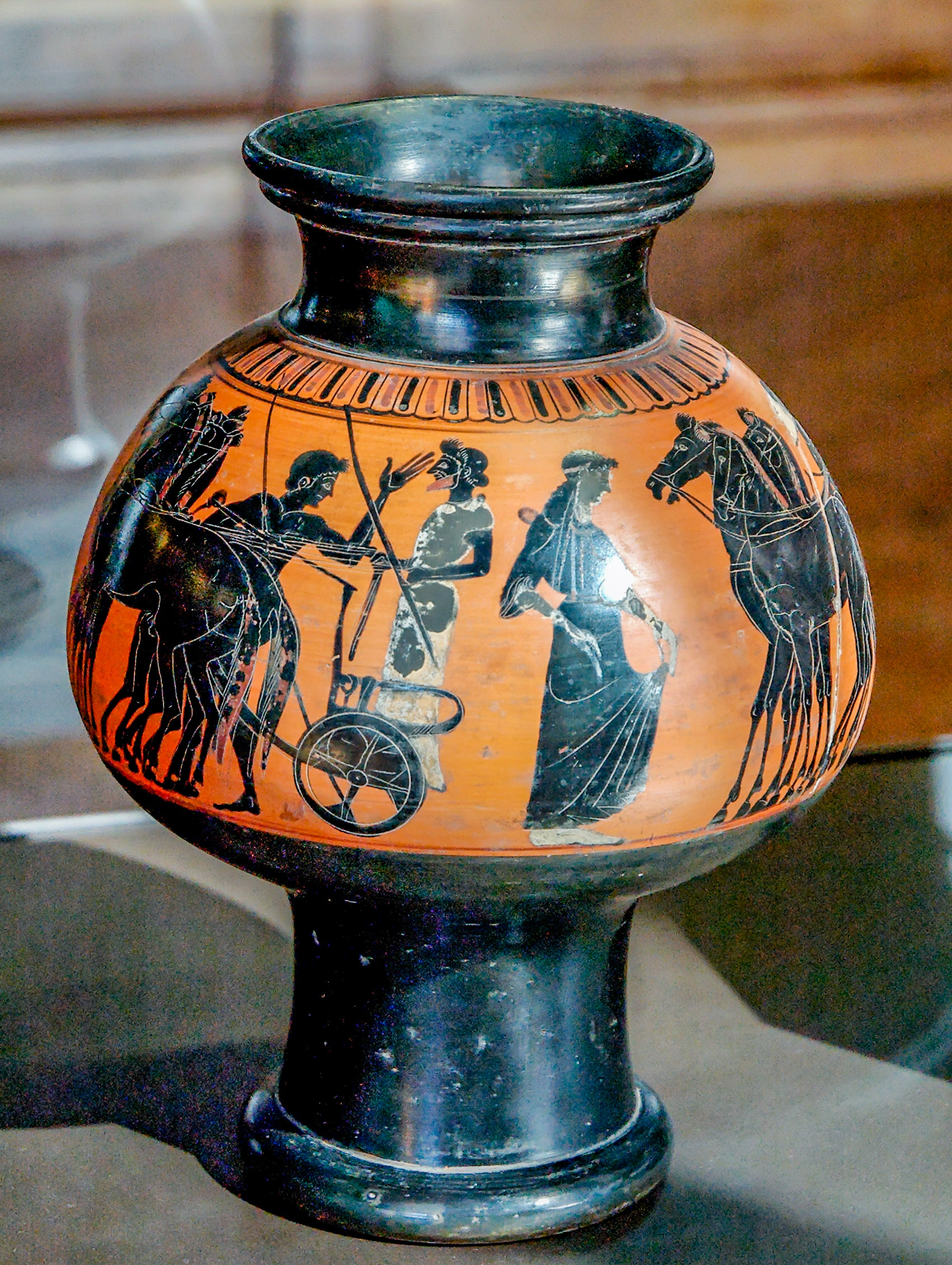 Warrior's departure. Attic black-figure psykter, ca. 525–500 BC.